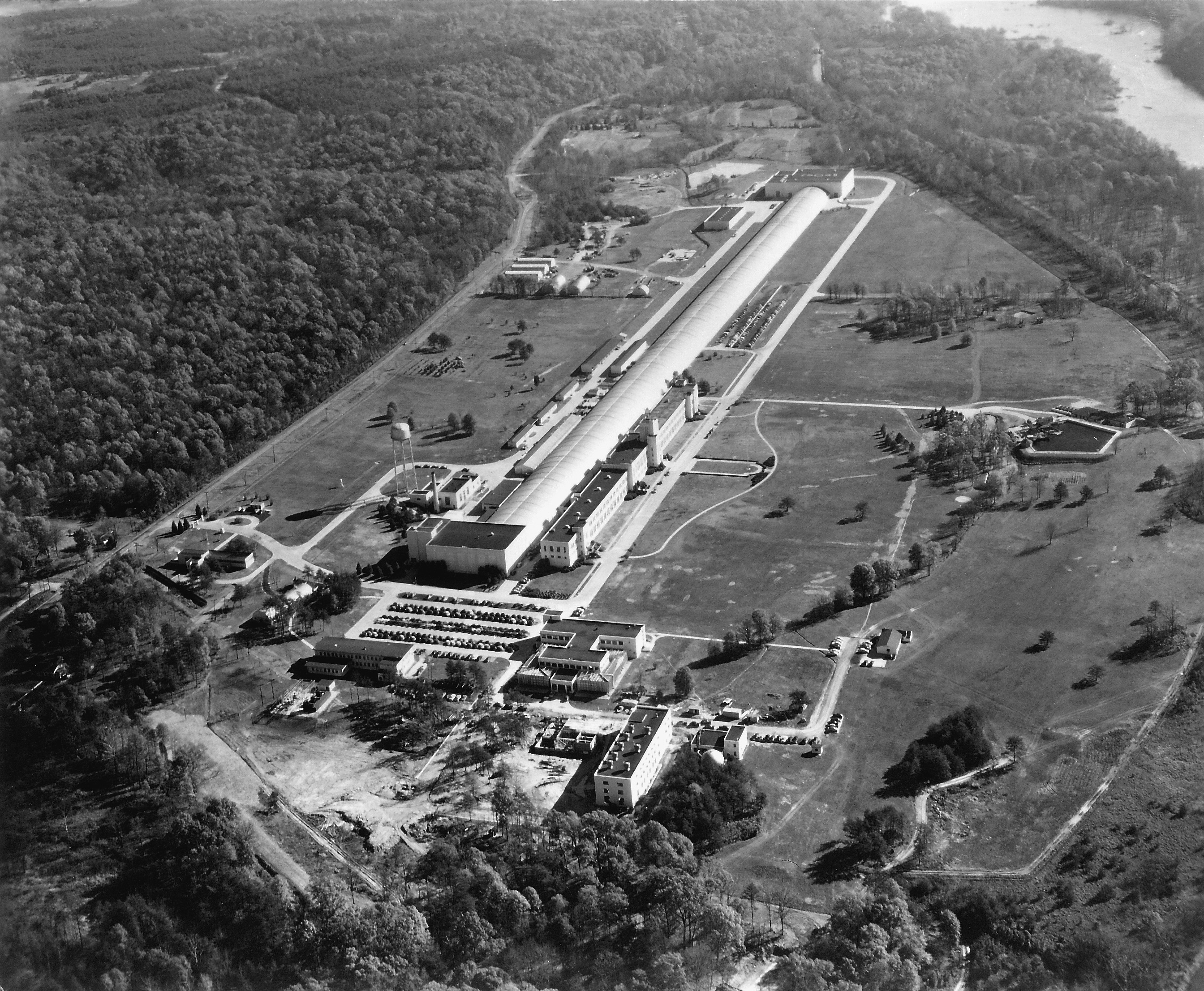 Exterior view of the David Taylor Model Basin, Bethesda, Maryland, USA